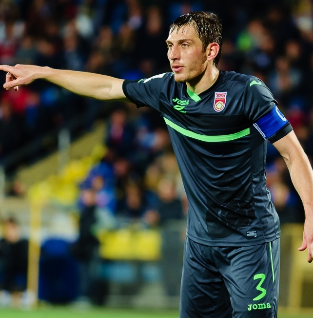 Pavel Alikin